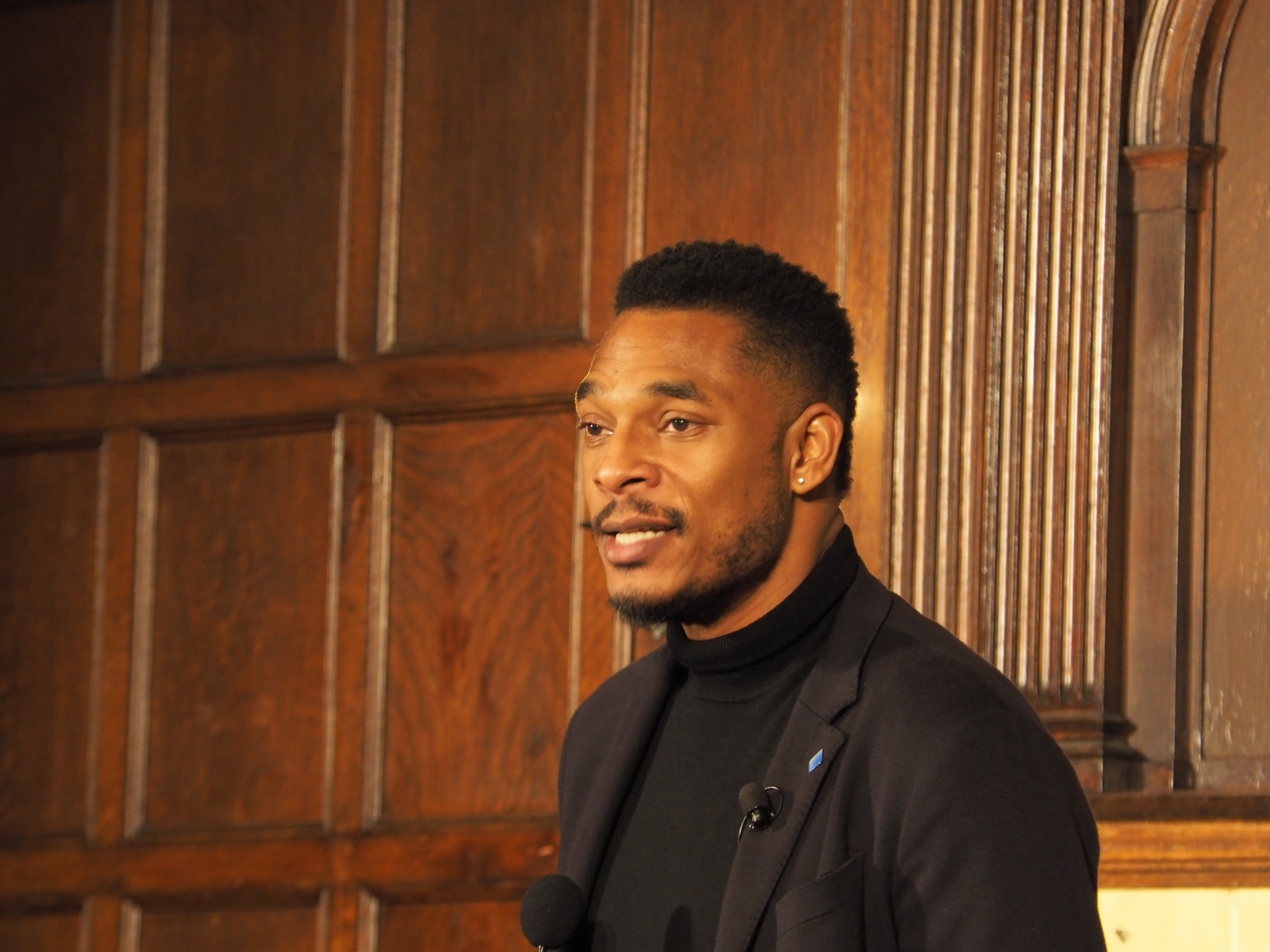 Terrance Hayes at lannan center, georgetown university